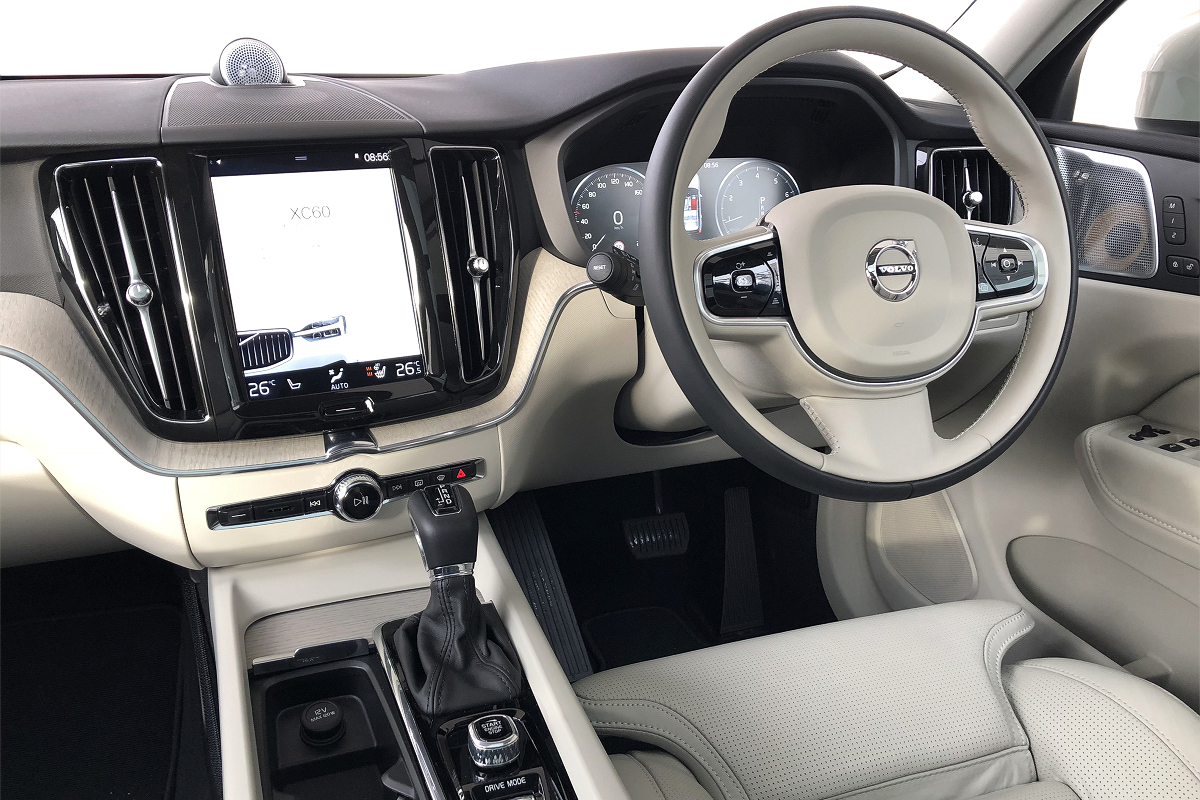 VOLVO XC60 T5 AWD INTERIOR(JPN).Photographed in Japan.